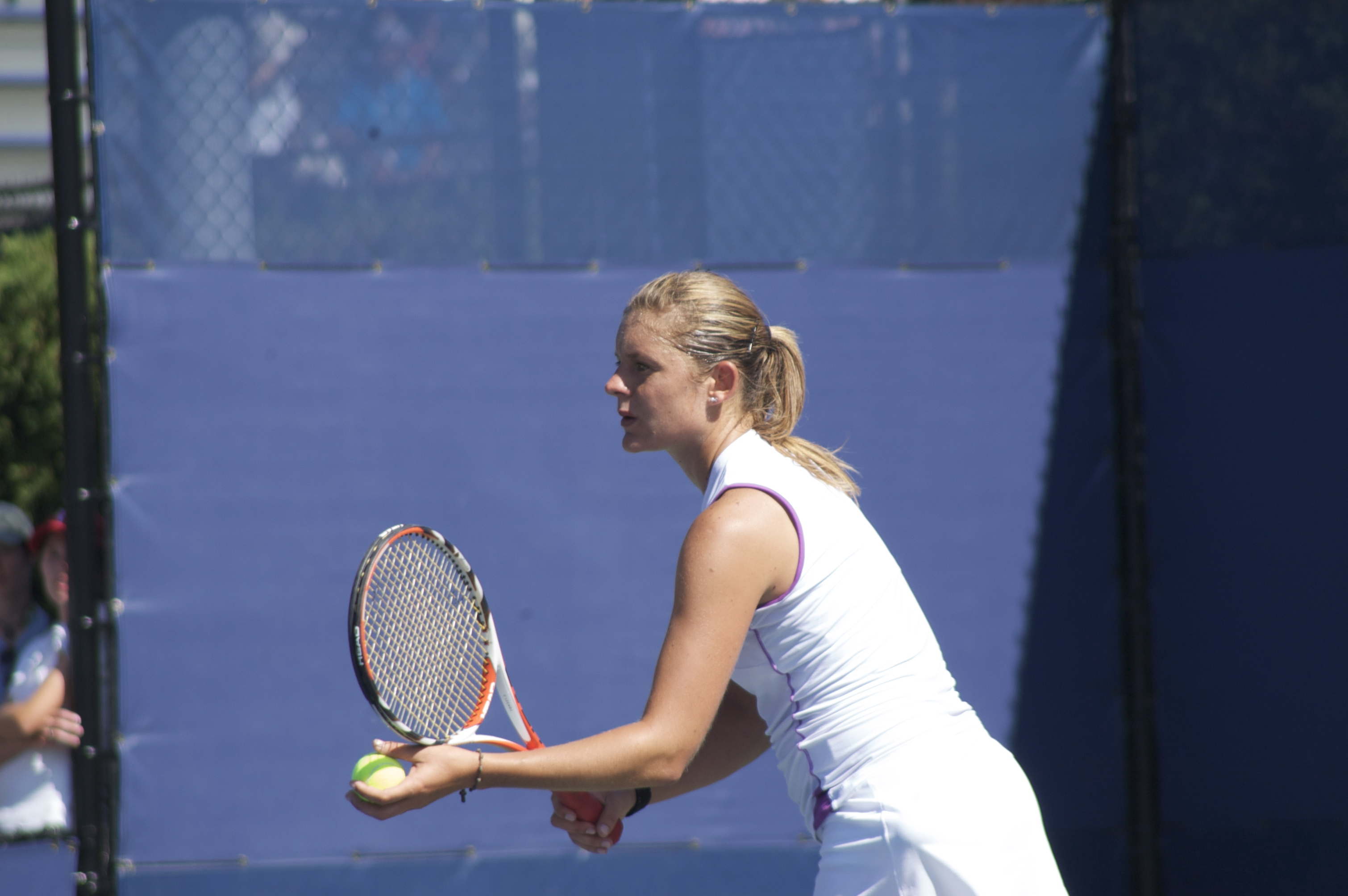 Julie Coin at the 2008 US Open